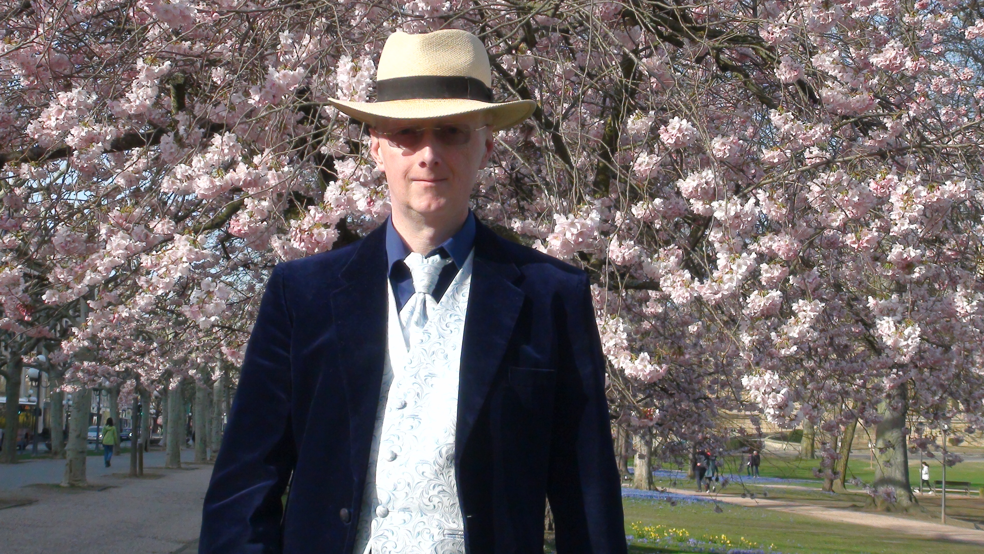 James Peace in Wiesbaden